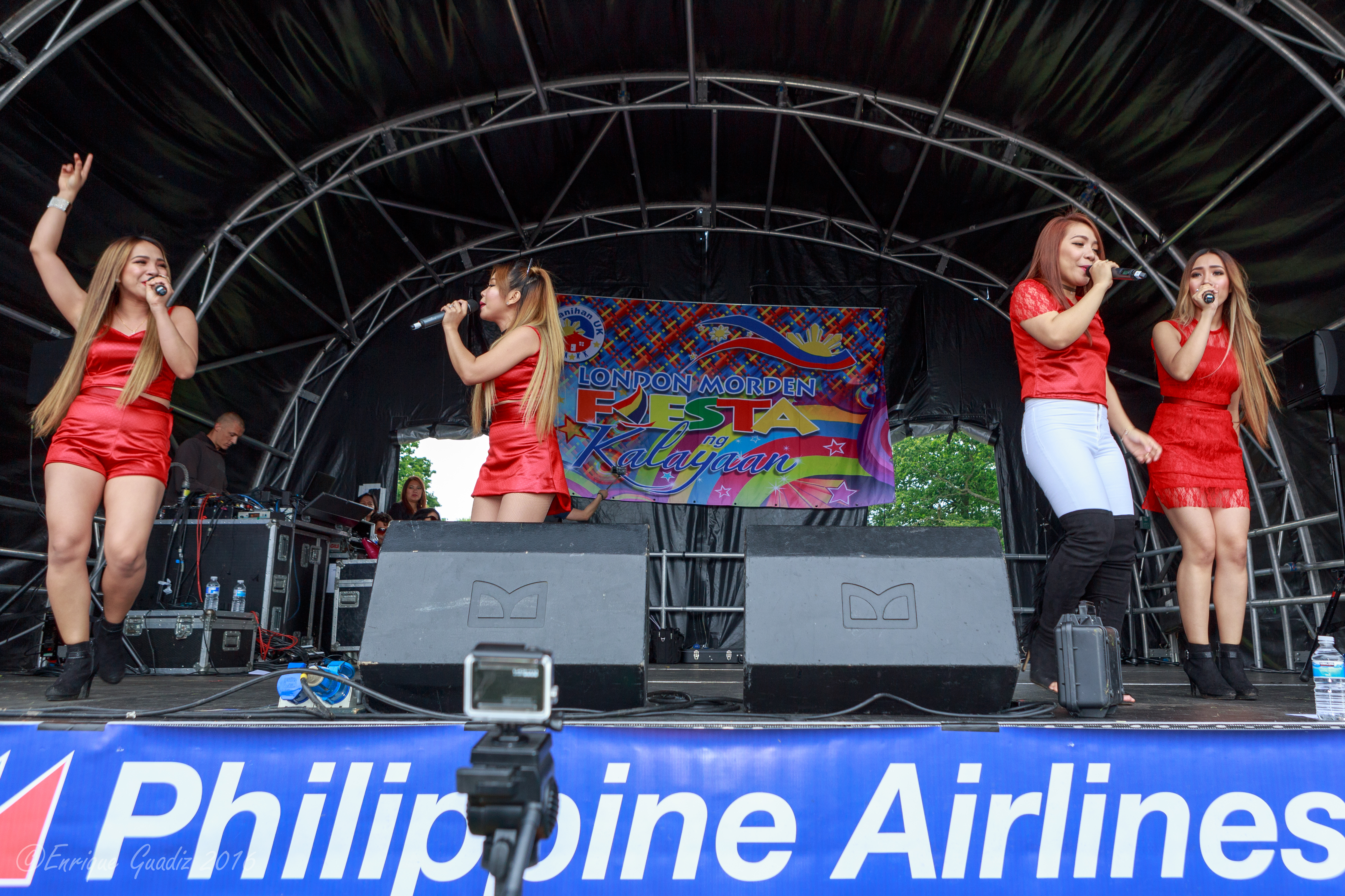 London, UK. 118th Philippine Independence Day, London Morden Fiesta.